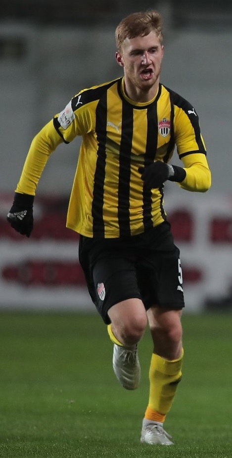 Aleksandr Troshechkin with FC Khimki in a Russian Cup quarterfinal game against FC Torpedo Moscow.